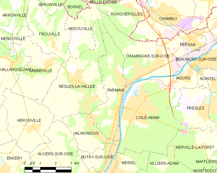 Map of French municipality Parmain